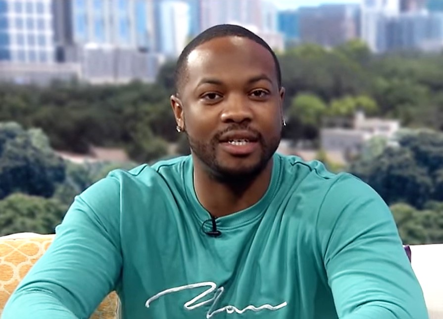 Sister Circle Live | Ser'Darius Blain Breakout star from the blockbuster 'Jumanji: Welcome to the Jungle' is down to The Circle! Tune in to 'Sister Circle Live' Monday - Friday at 12p/est on TvOne - check your local listings for more times. Follow us on our other Social Channels for more Updates and Behind The Scenes Moments @SisterCircleTV on Instagram, Twitter & Facebook.